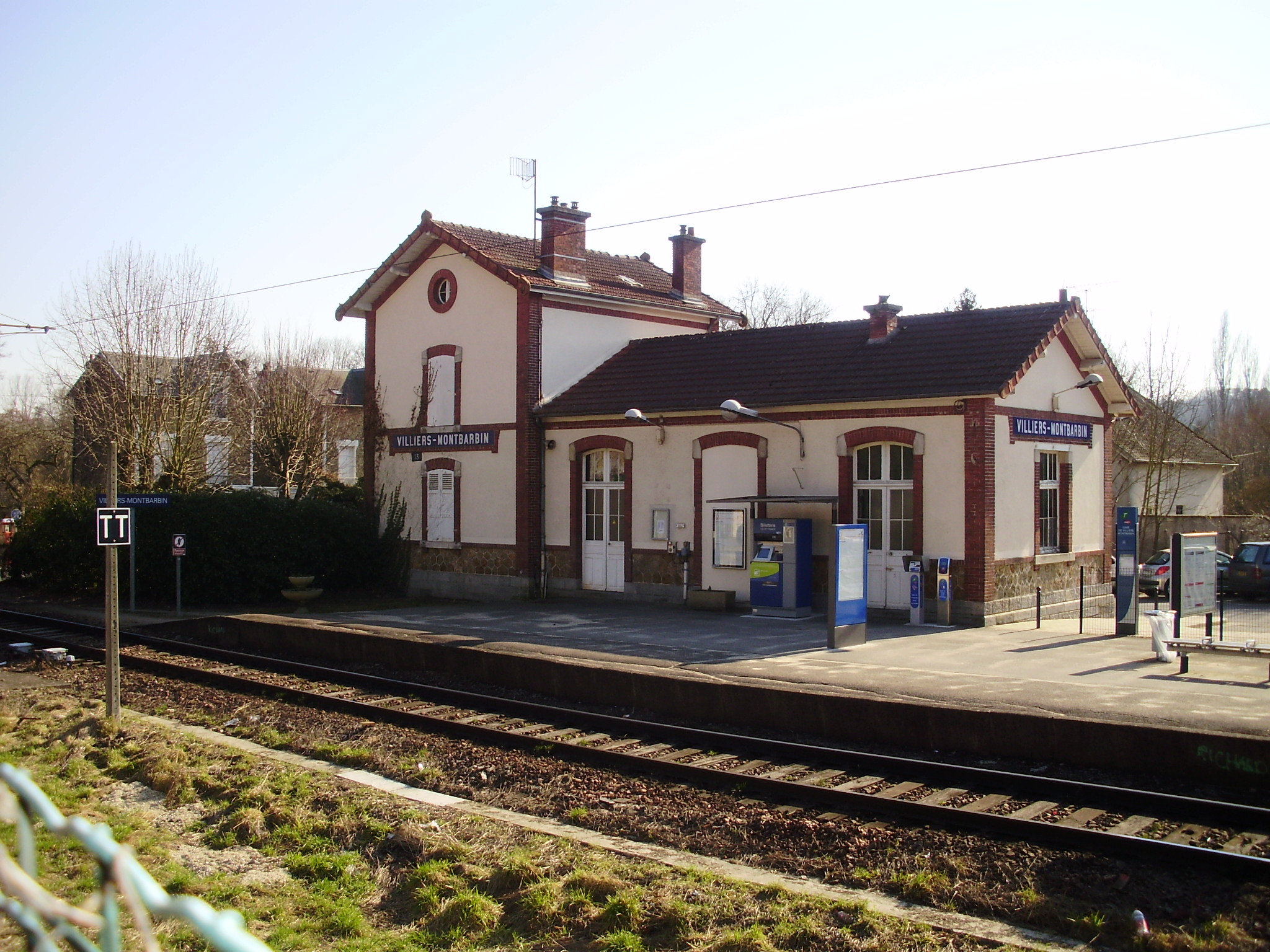 Villiers - Montbarbin station, Seine-et-Marne, France